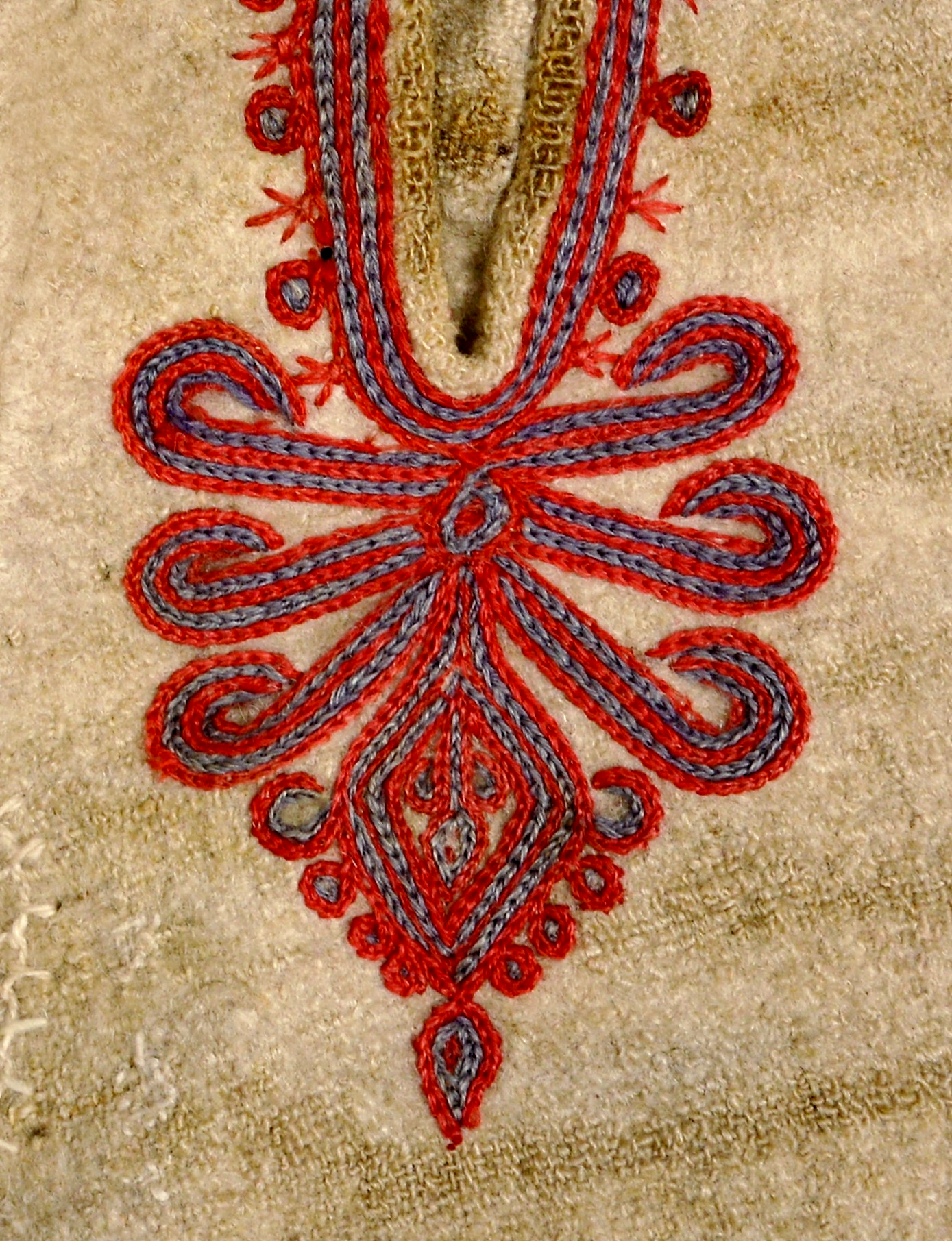 Parzenica embellishment on men's traditional trousers, XIXth century, Podhale. Collection of the Tatra Museum in Zakopane.